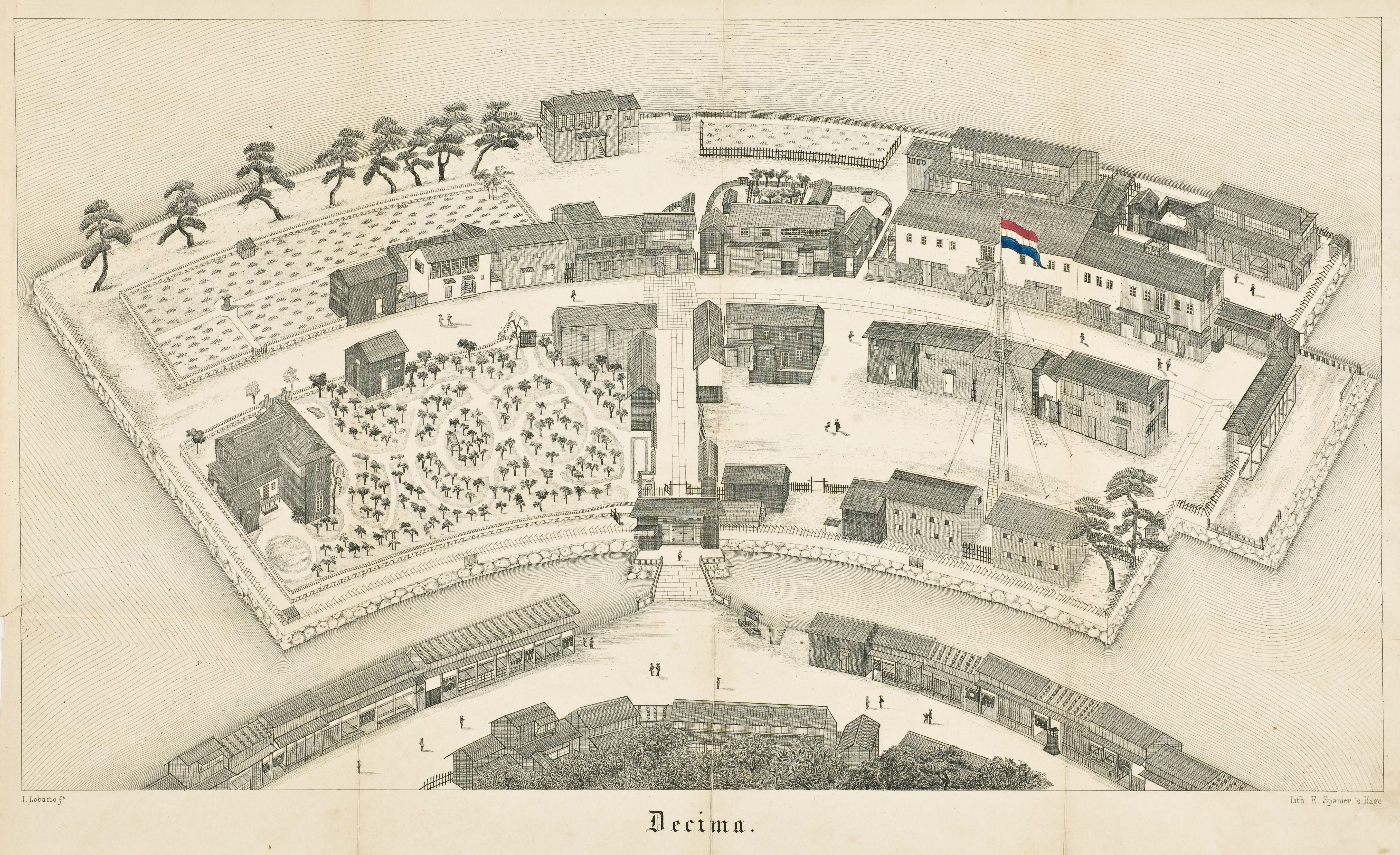 Lithograph of Dejima, Japan, ±1850